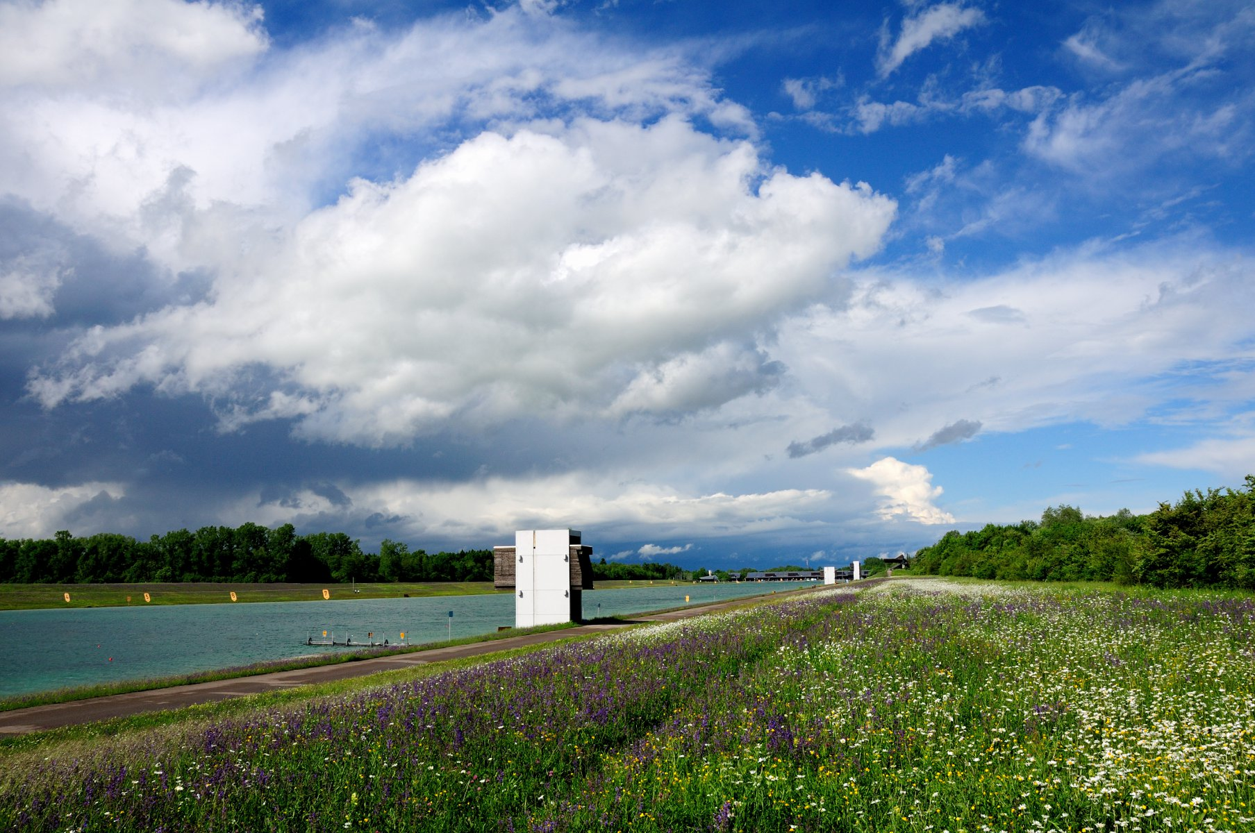 Boat race course Oberschleissheim, built for the olympic games in Munich 1972